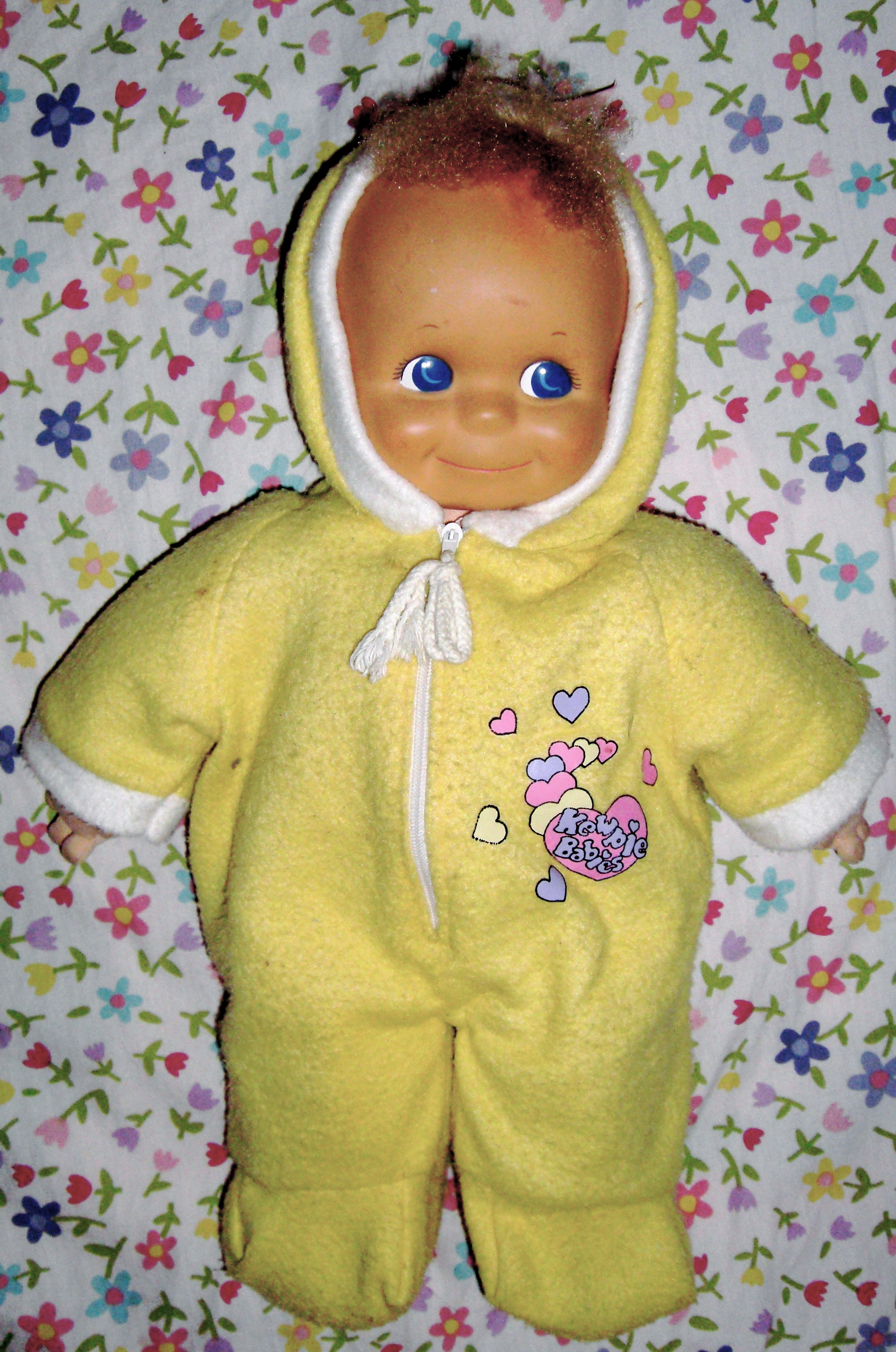 A kewpie babydoll from the collection "Kewpie Babies."